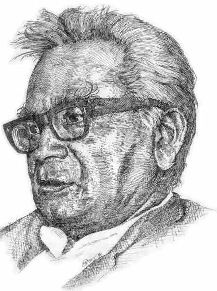 Ram Manohar Lohia